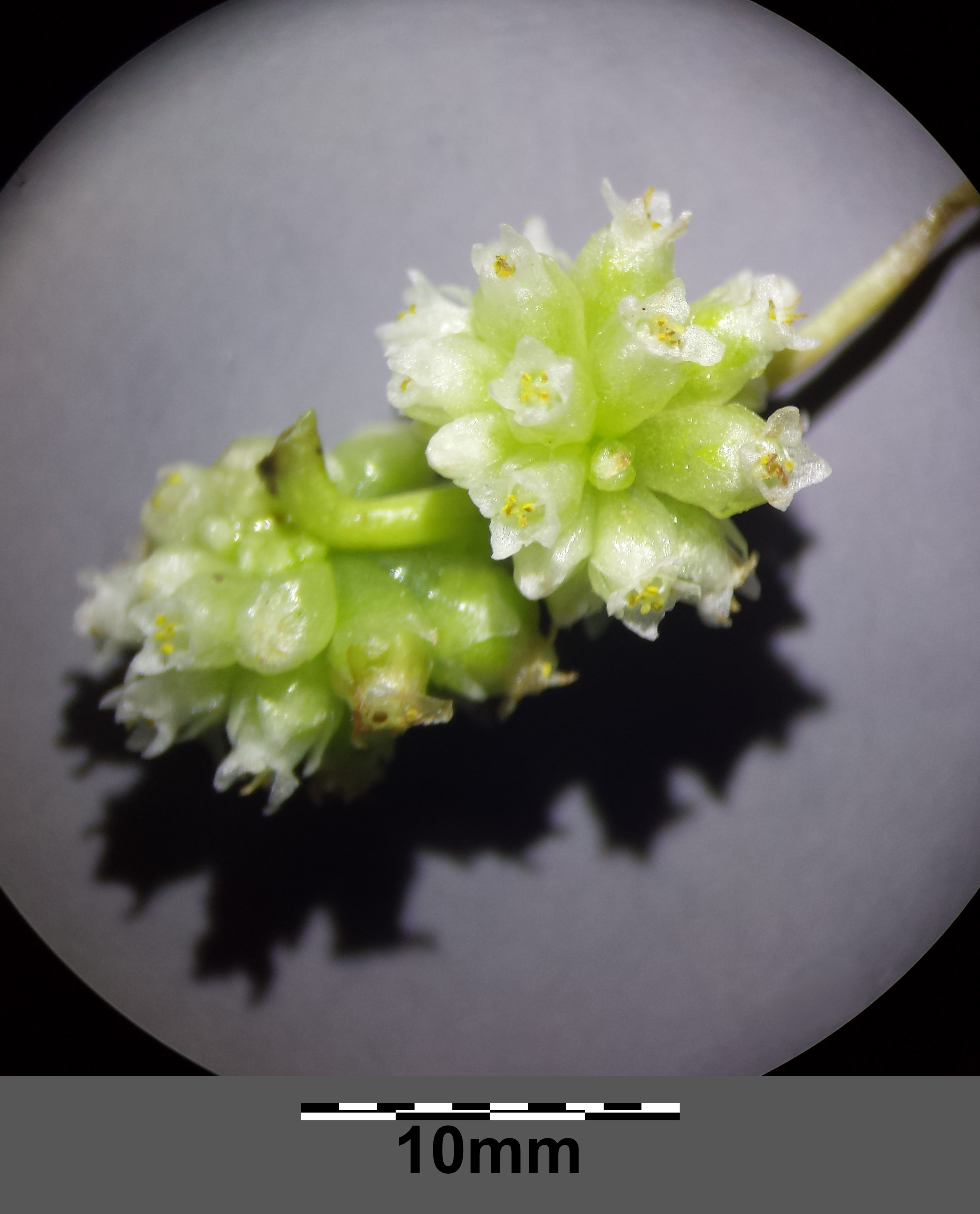 Glomerules with flowers Taxonym: Cuscuta europaea ss Fischer et al. EfÖLS 2008 ISBN 978-3-85474-187-9 Location: next to Harmannstein, Großschönau, district Gmünd, Lower Austria - ca. 800 m a.s.l. Habitat: wayside